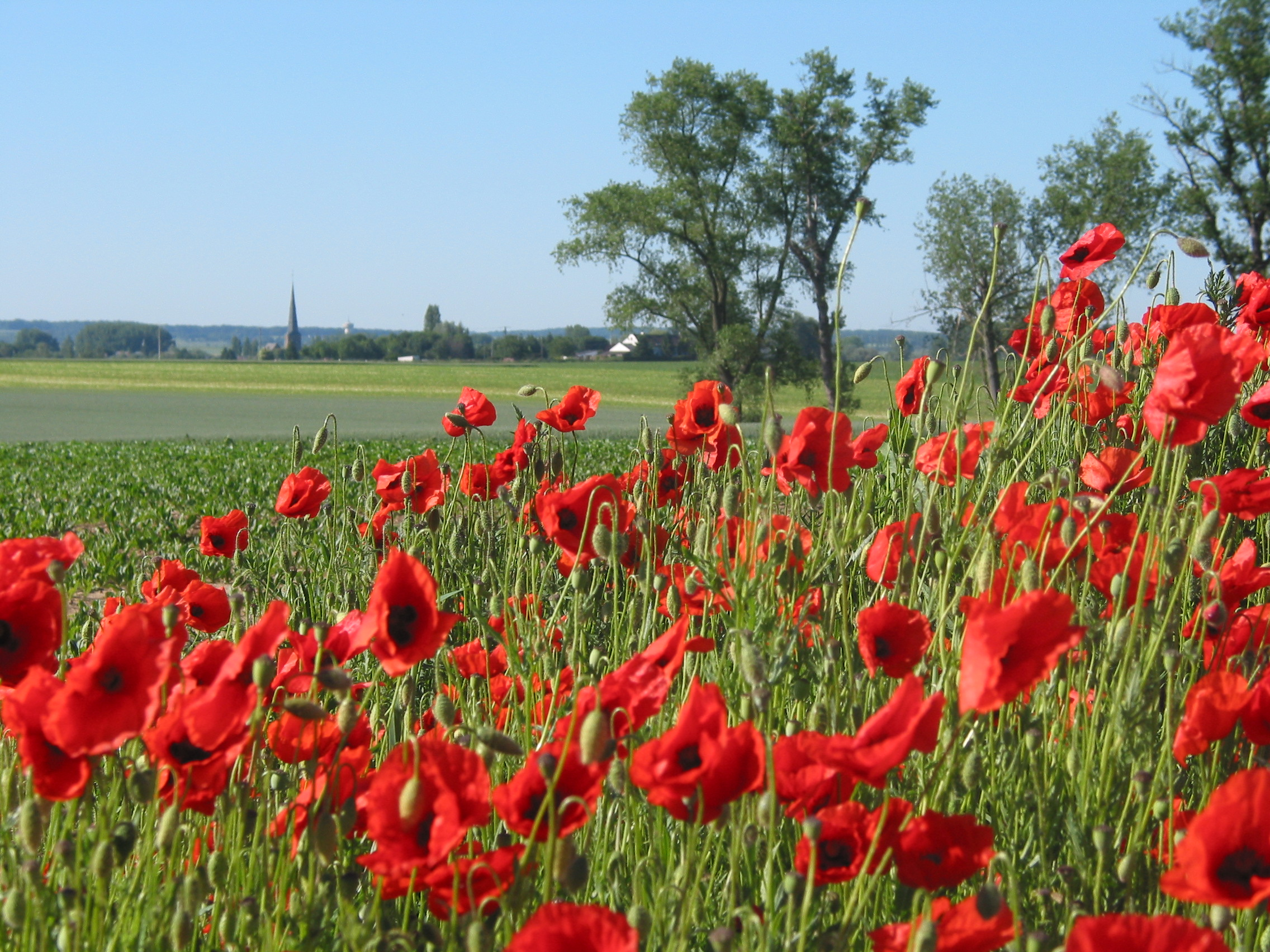 Grand-Reng (Belgium), colours of the spring.